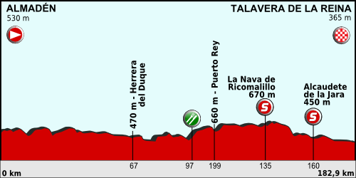 Profile of the 7th stage: Vuelta a España 2011